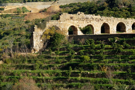 Qanater Zubaida, Mansourieh